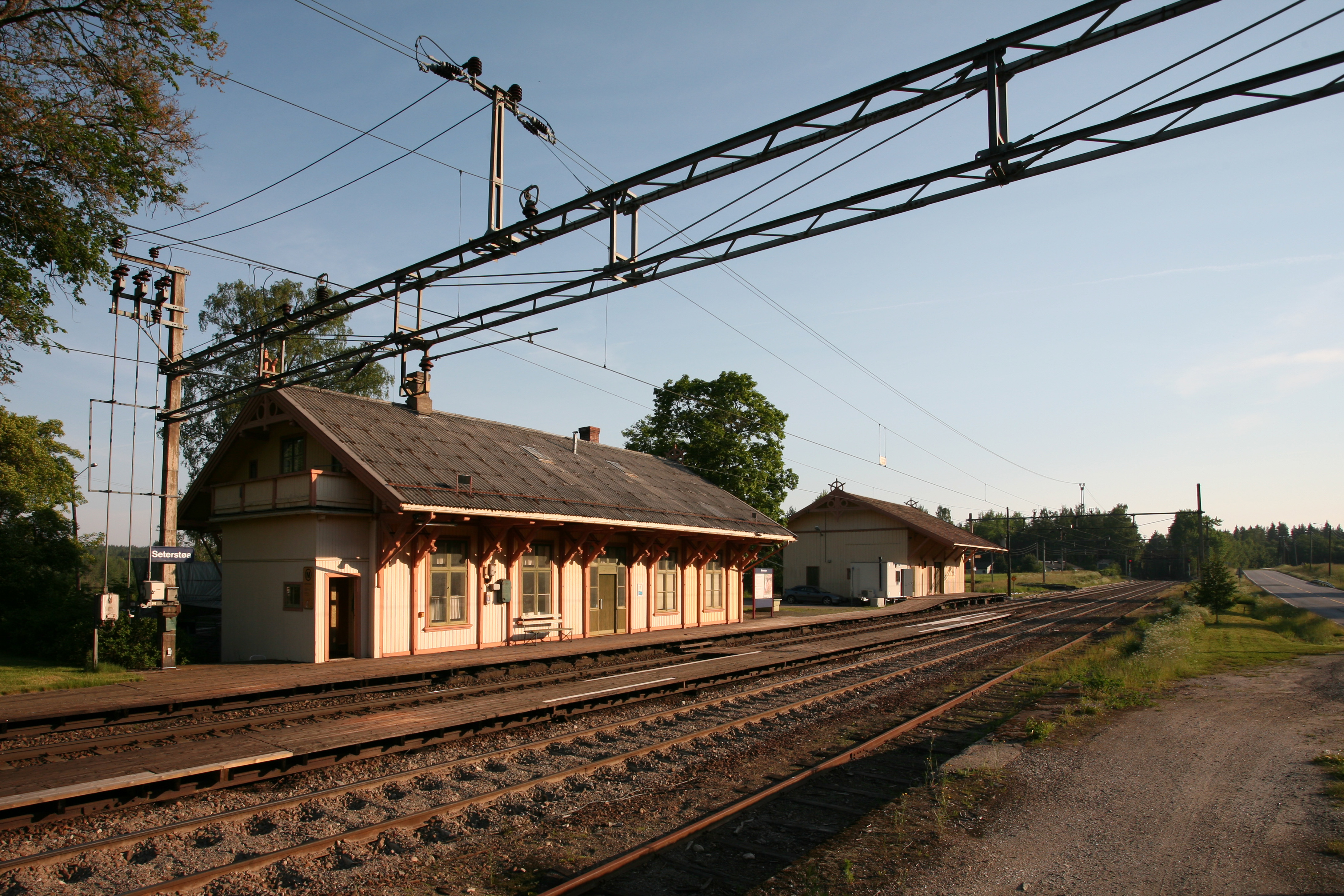 Picture of Seterstøa Railway Station (Norway)